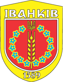 Coat of arms of the town of ivankiv.